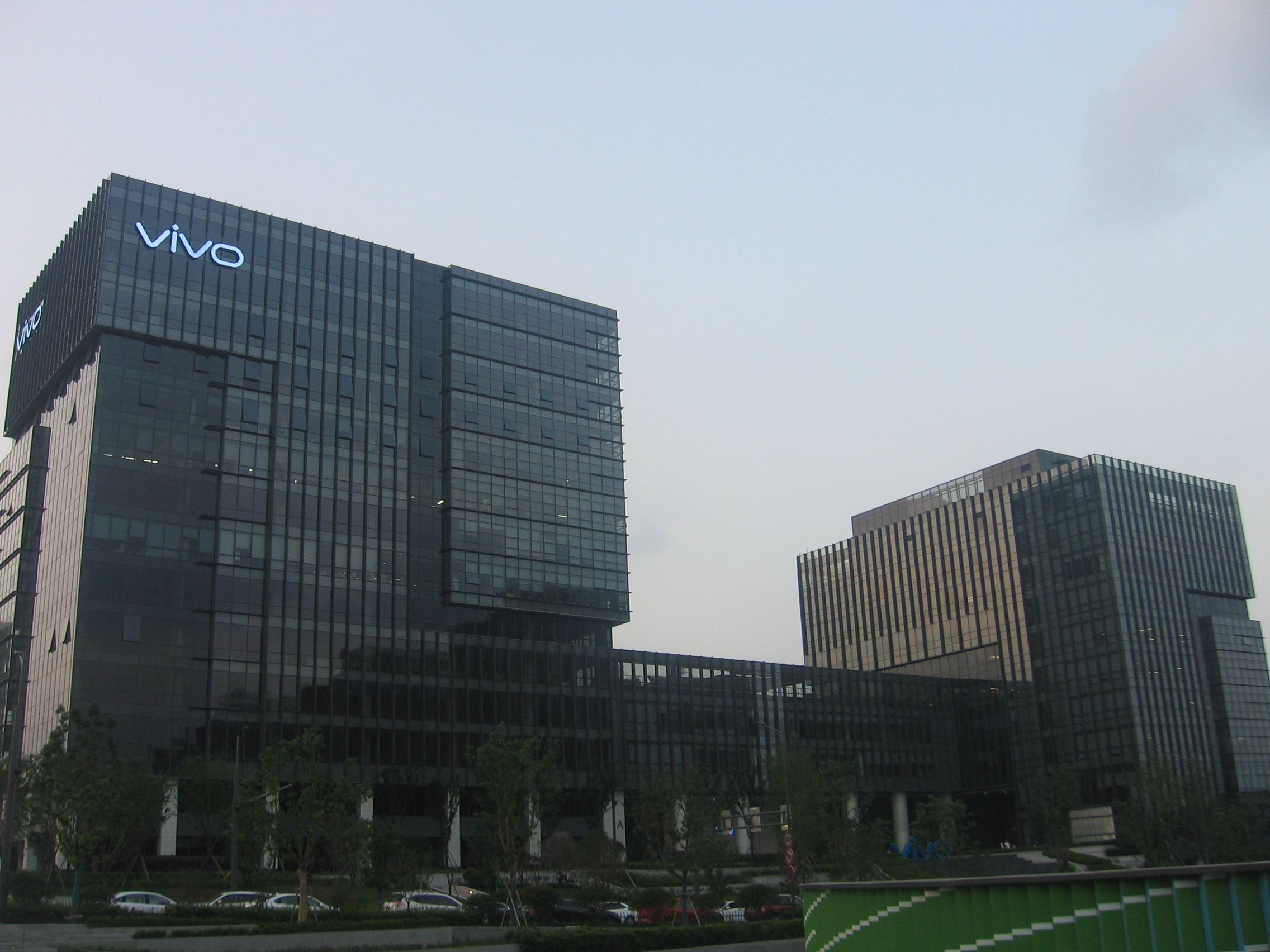 The mansion of Vivo, a Chinese telecommunications company, in Nanjing, China.